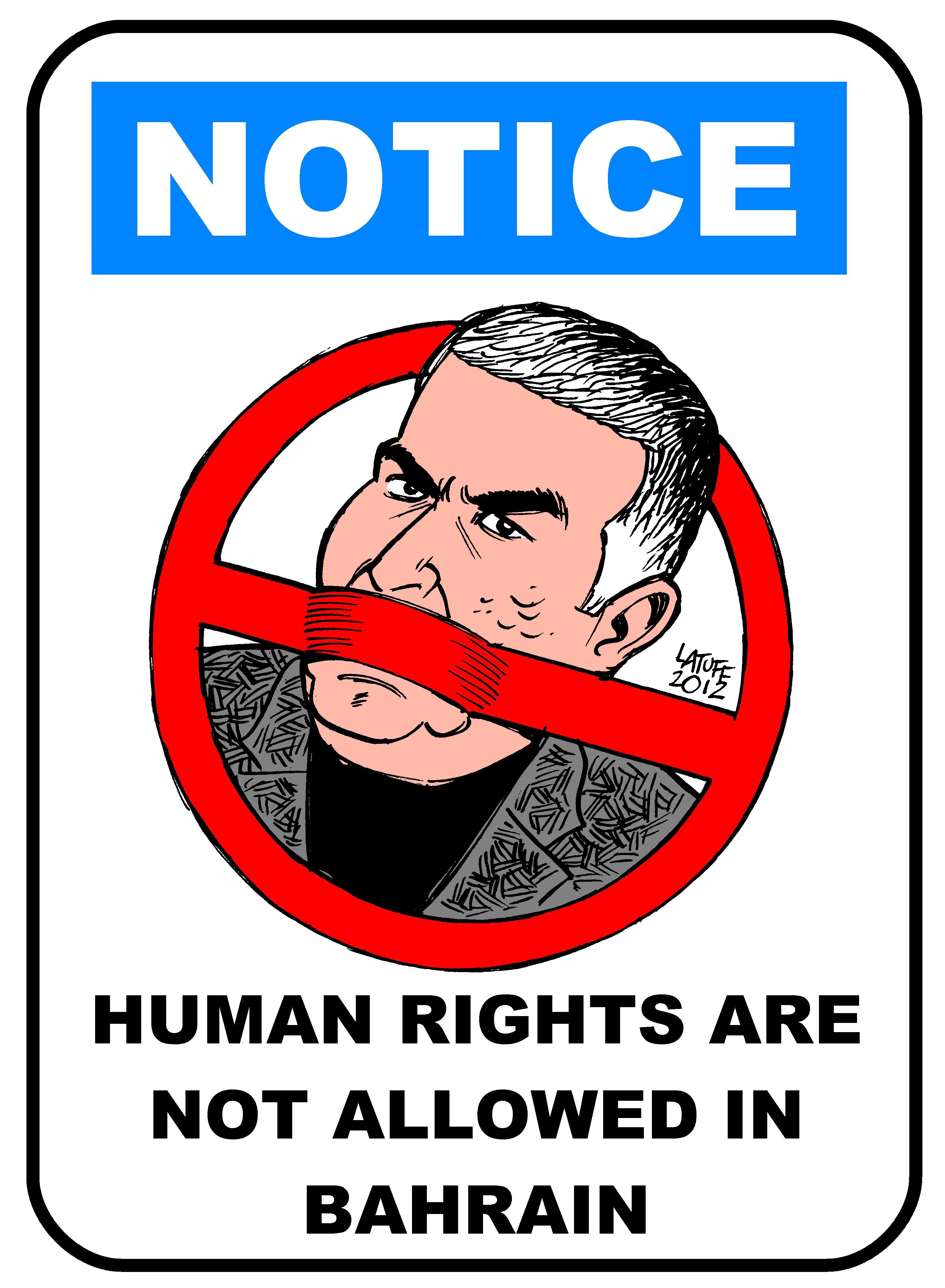 Political cartoon by Carlos Lattuf on Nabeel Rajab arrest